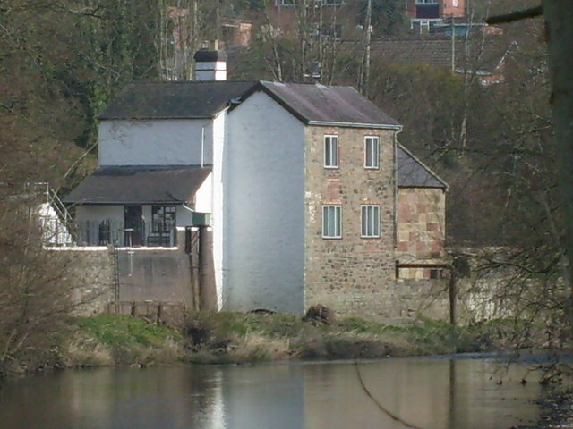 Pump House from south of the river. A view from the south of the river, showing the height of the building and the old water race.